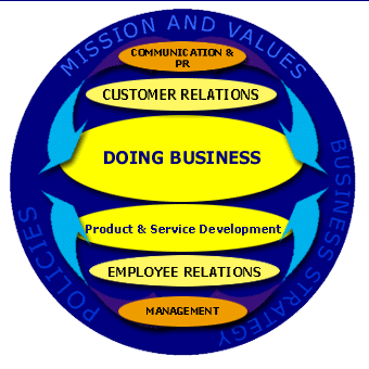 CMG:Commander logo, CMG (since 2003 merged with Logica).